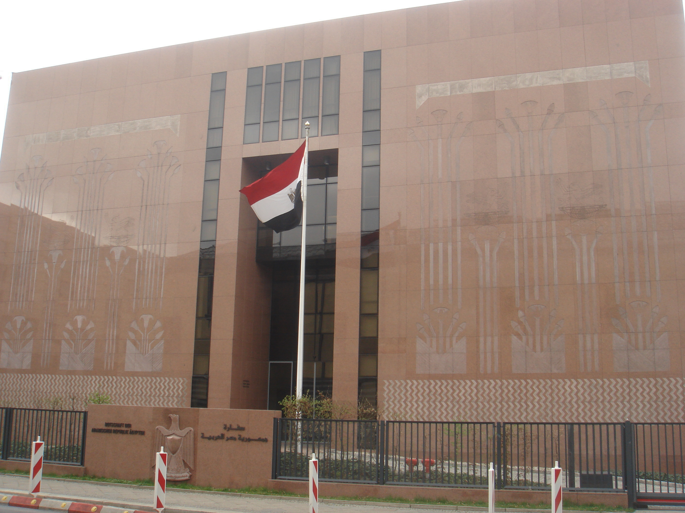 Egyptian Embassy in Berlin